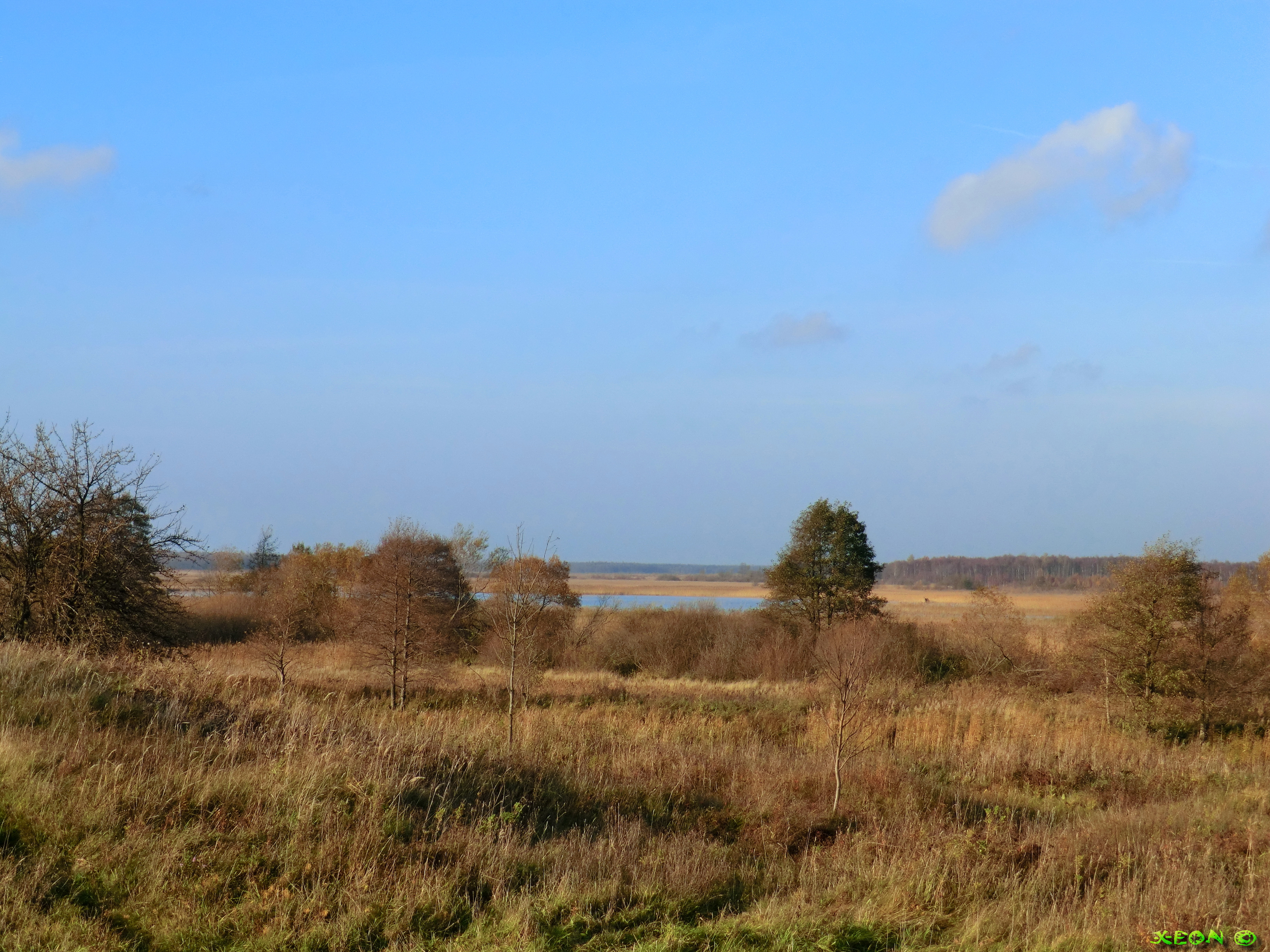 Part Of Tosmares Lake